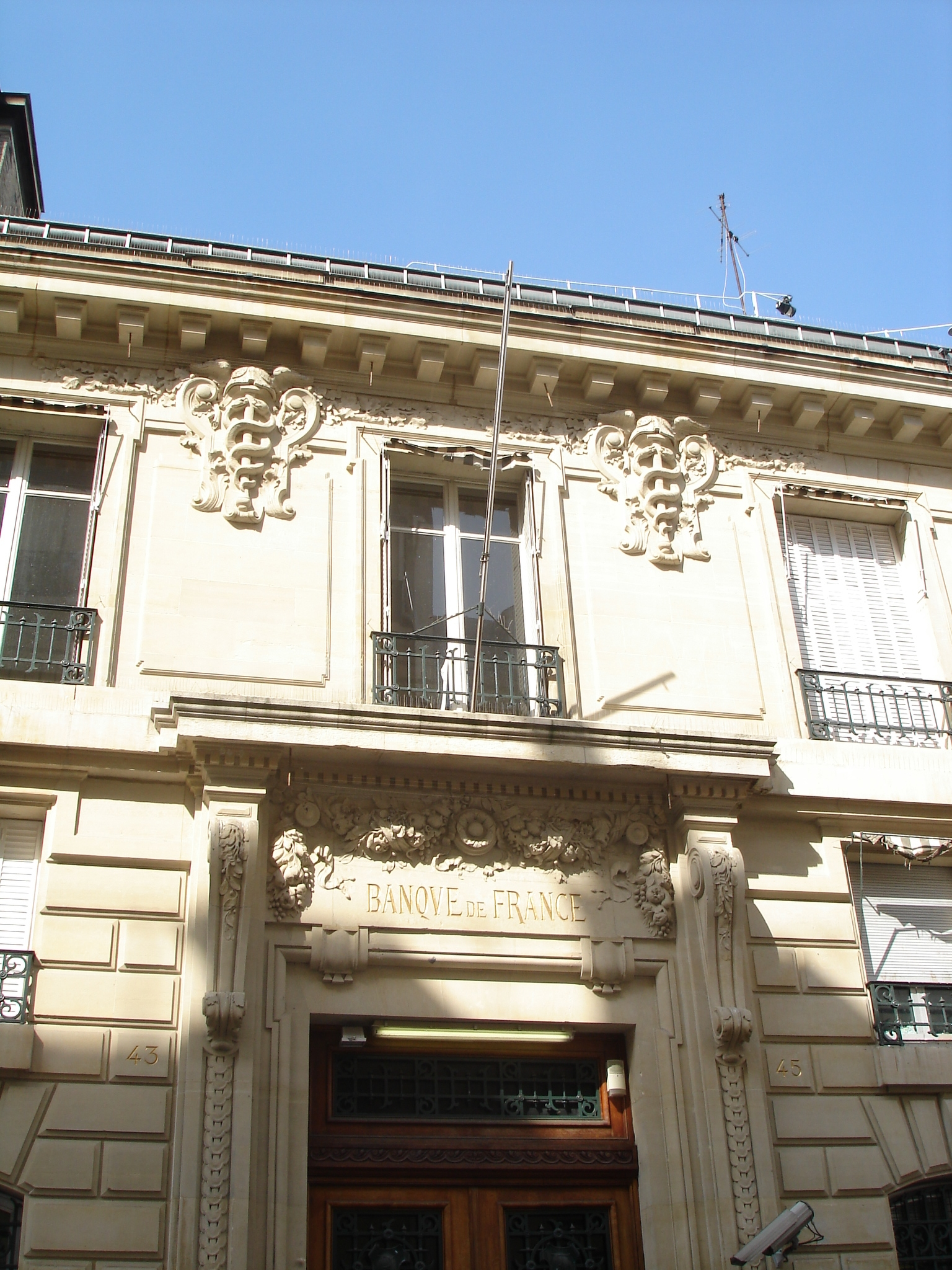 Sculptures around the entrance door of an old building of the Banque de France, built in 1899. Building located rue Anatole-France at Levallois-Perret, suburb of Paris (France)